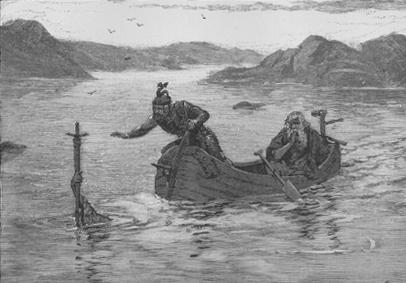 The Lady of the Lake gives Excalibur to King Arthur